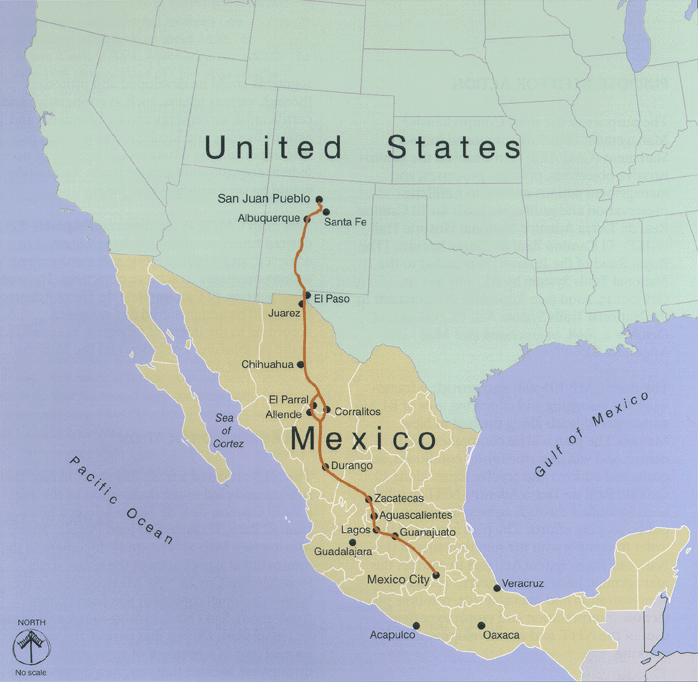 Map of Camino Real de Adentro of the Spanish Viceroyalty of New Spain: Trail route runs between México City in Colonial México, and Santa Fe and San Juan in Colonial New México (Santa Fe De Nuevo Mexico province). Present day nations/borders are shown.